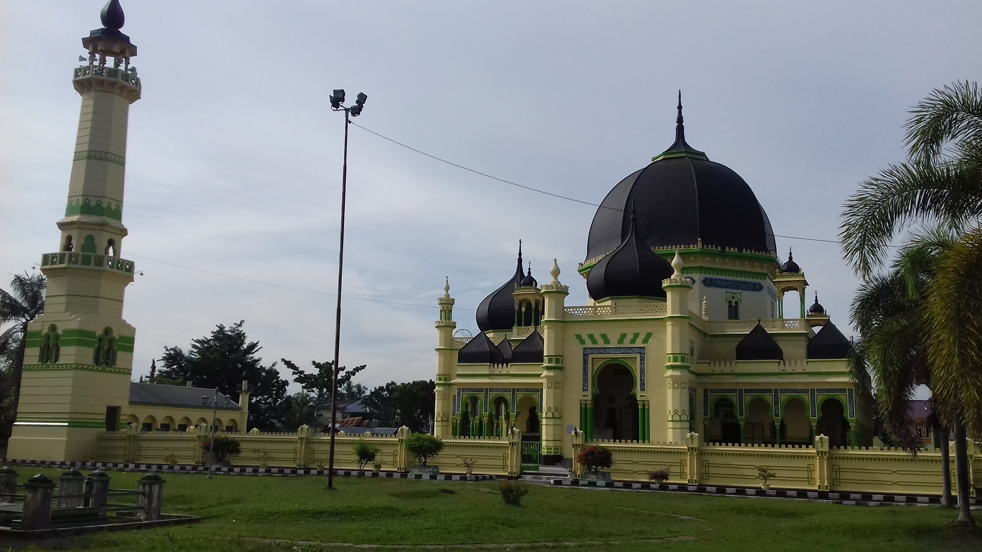 One of the best examples of Mooris-Malay-Dutch architecture, the mosque is located in Langkat regency, in the main road connecting North Sumatera and Aceh provinces. The construction was started in the reign of Sultan Haji Musa in 1899 CE, and finished in the reign of his son, Sultan Abdul Aziz Djalil Rachmat Syah in June 13th 1902.